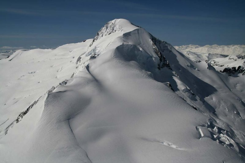 East face of Silverthrone Mountain